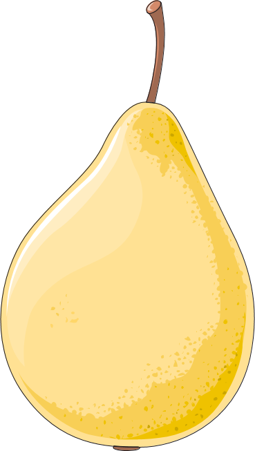 Clip art of pear